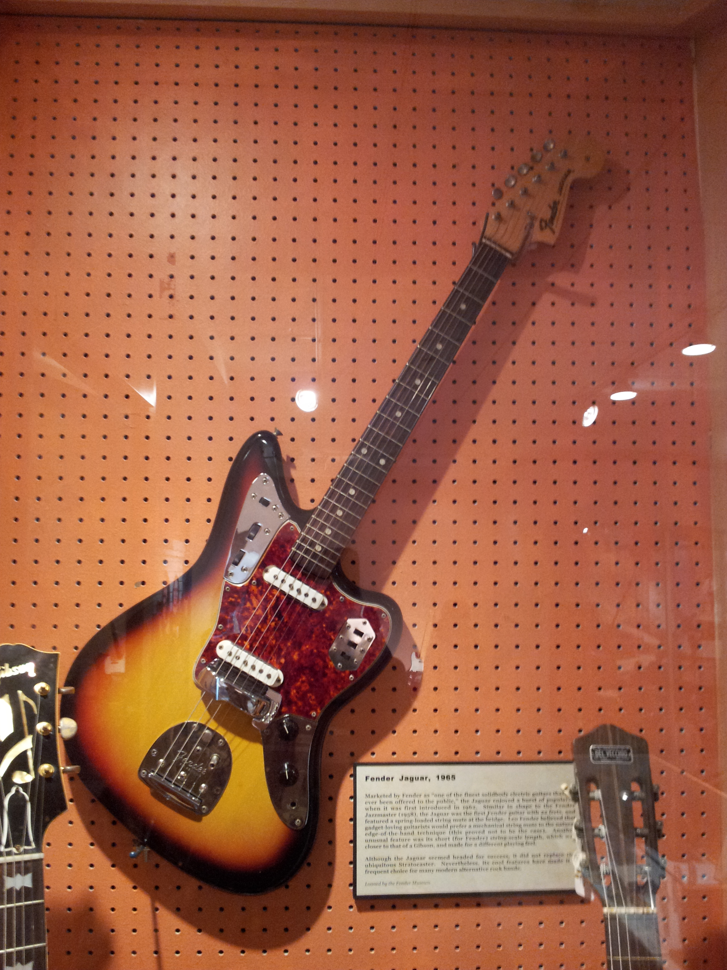 Fender Jaguar (1965), Museum of Making Music